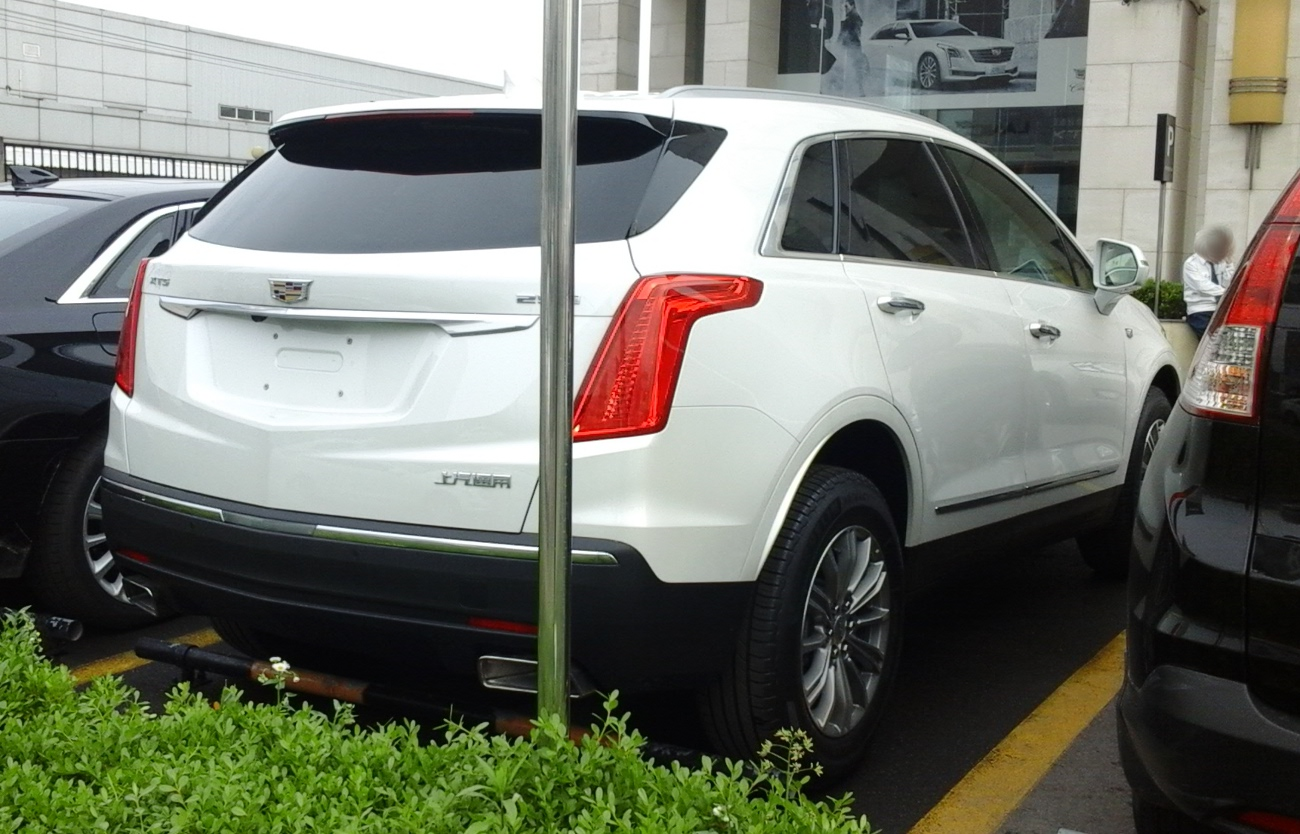 Cadillac XT5 photographed in Shanghai, China.